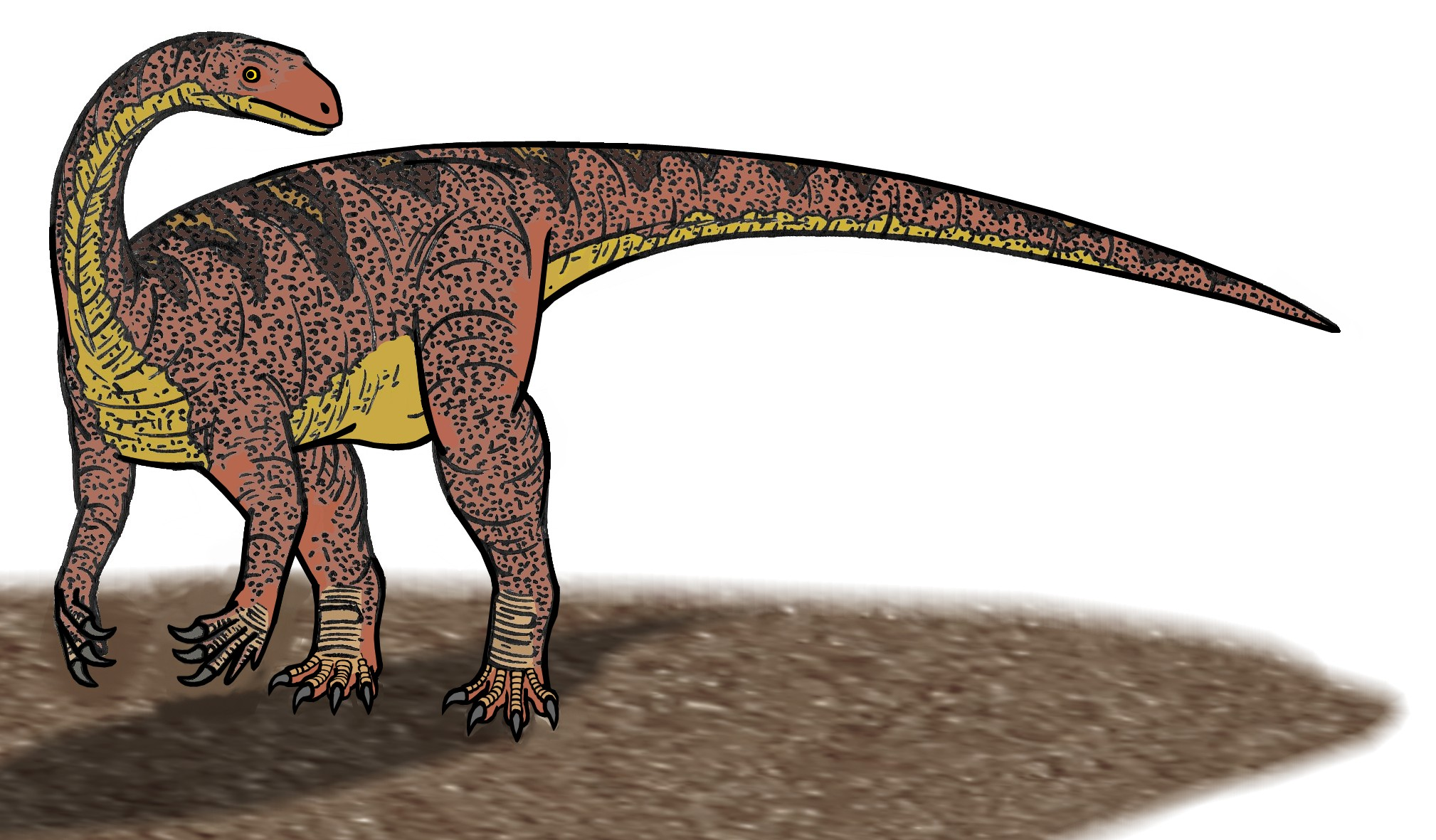 Illustration of the prosauropod dinosaur Unaysaurus, which lived in Brazil, and is dated to the late triassic period. It was smaller than its European relative Plateosaurus, with a body about the size of a humans.